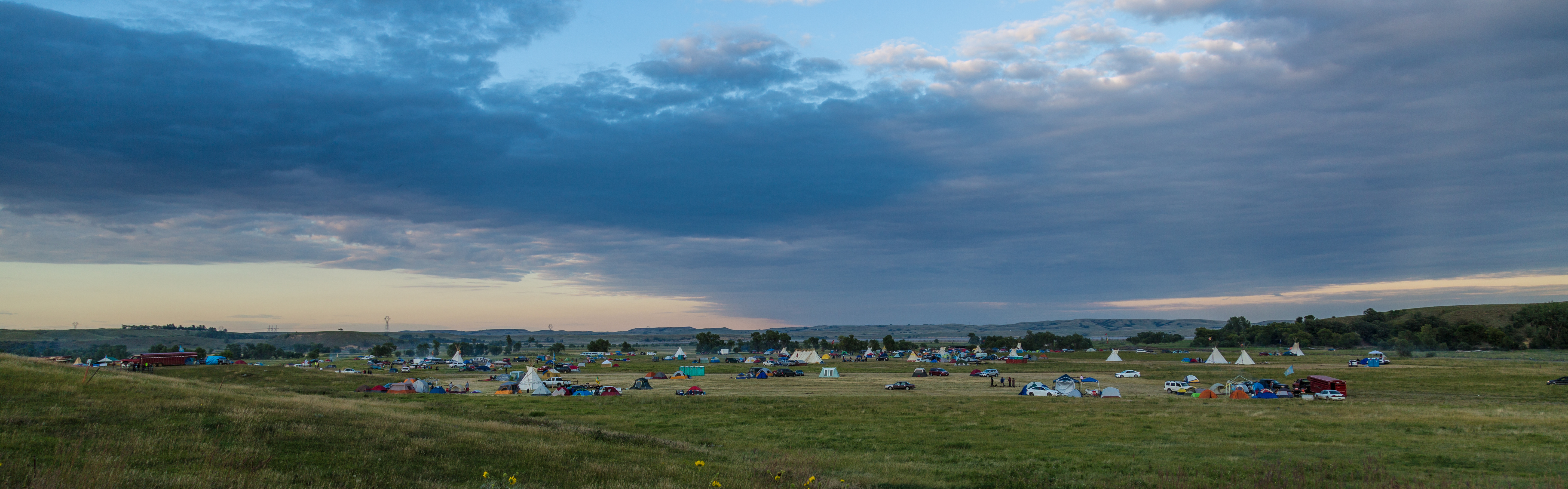 Dakota Access Pipeline protest at the Sacred Stone Camp near Cannon Ball, North Dakota.